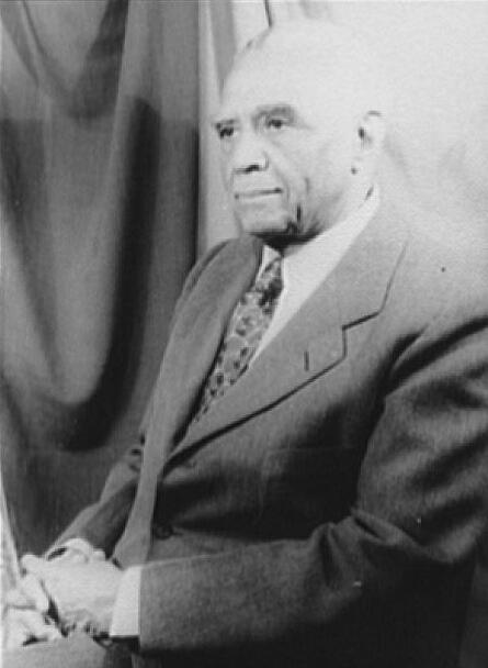 Title: Portrait of Laurence C. Jones, Piney Woods Country Life School, Mississippi Abstract/medium: 1 photographic print : gelatin silver.